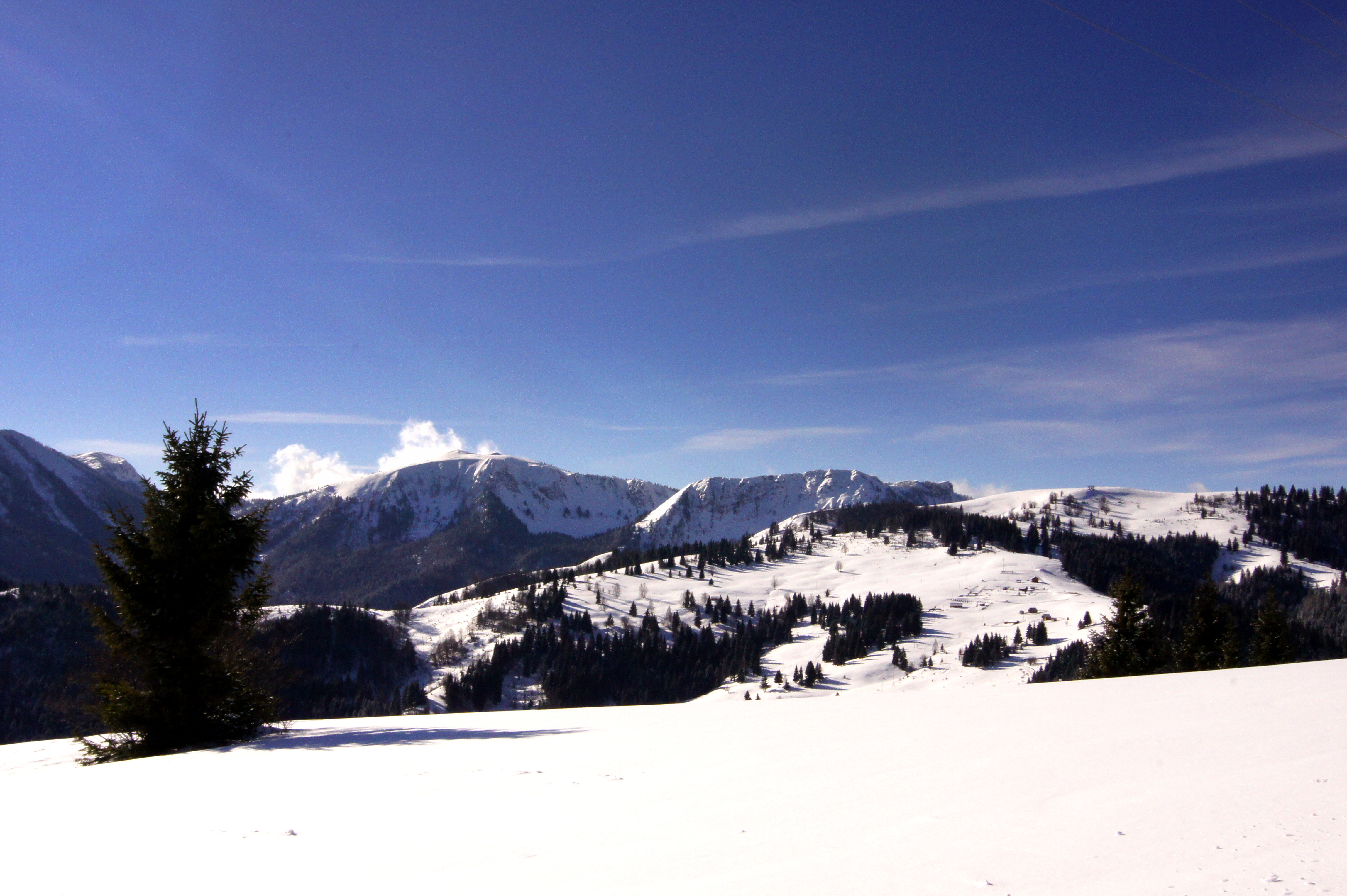 maje nag maja e Brezes